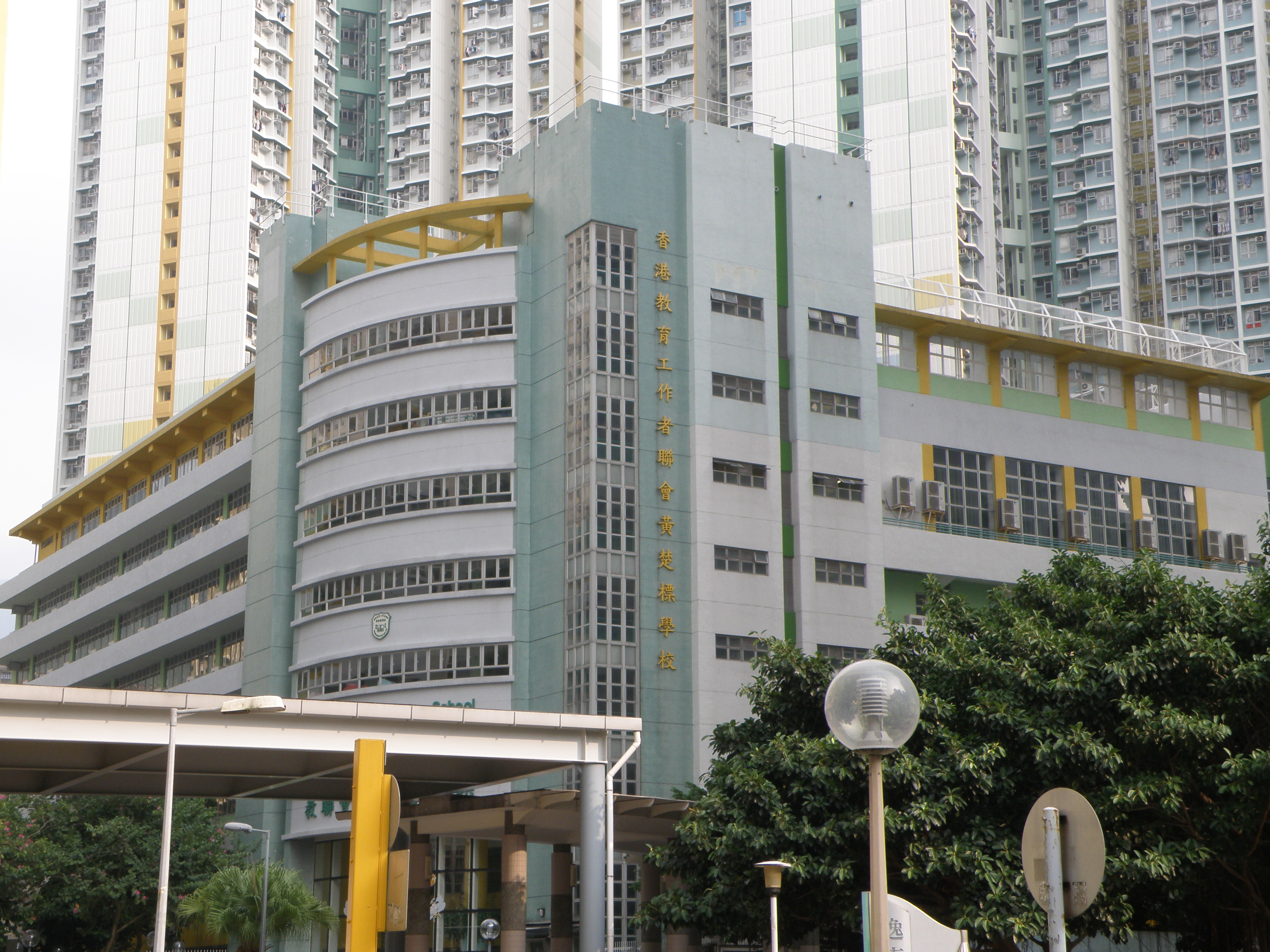 HKFEW Wong Cho Bau School in Tung Chung, Hong Kong.